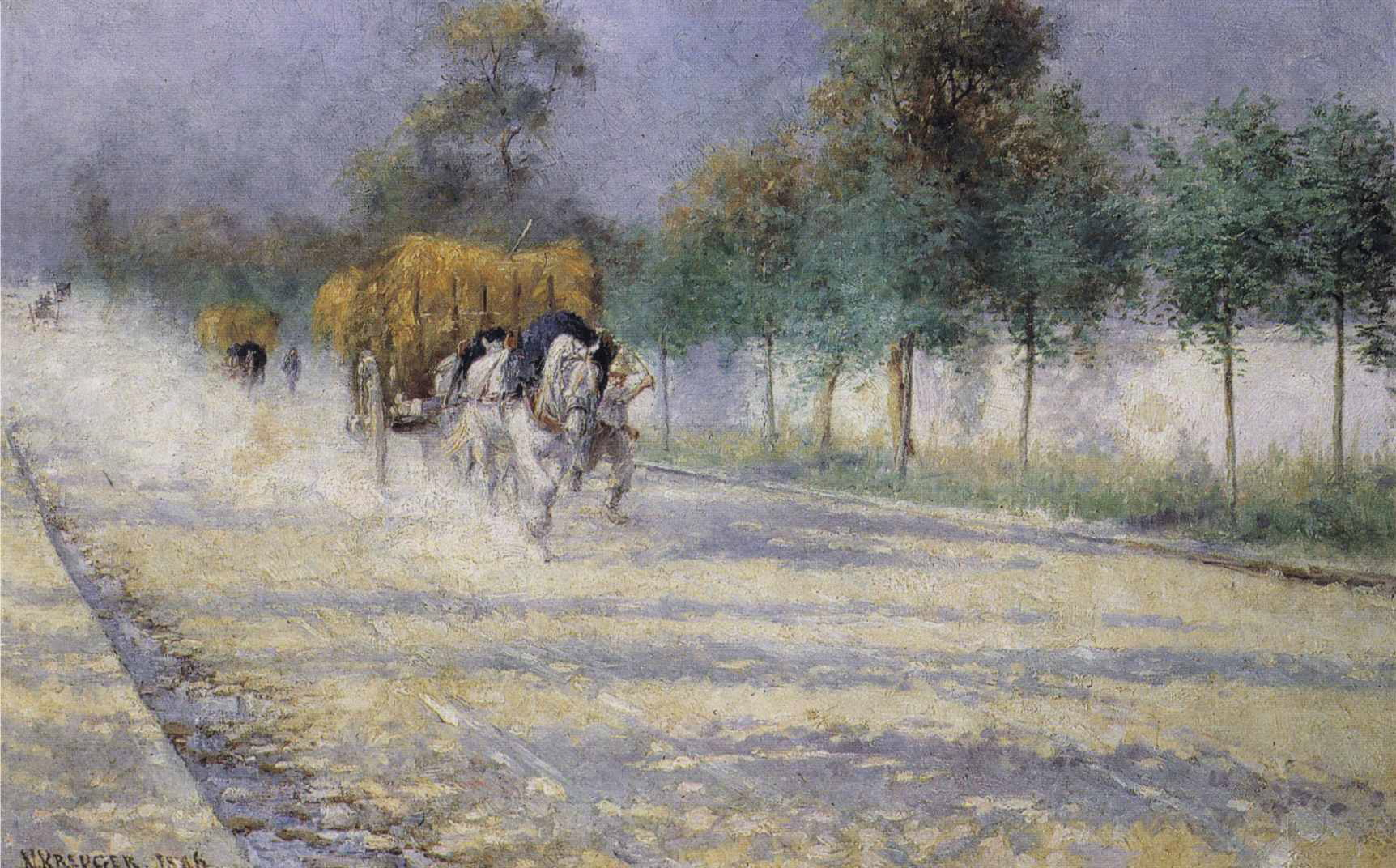 The Road to Orléans